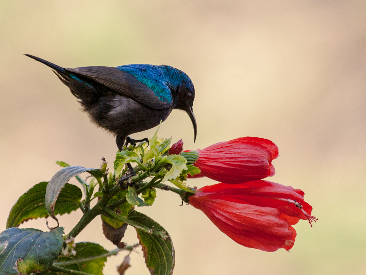 Palestine sunbird on hibiscus flower